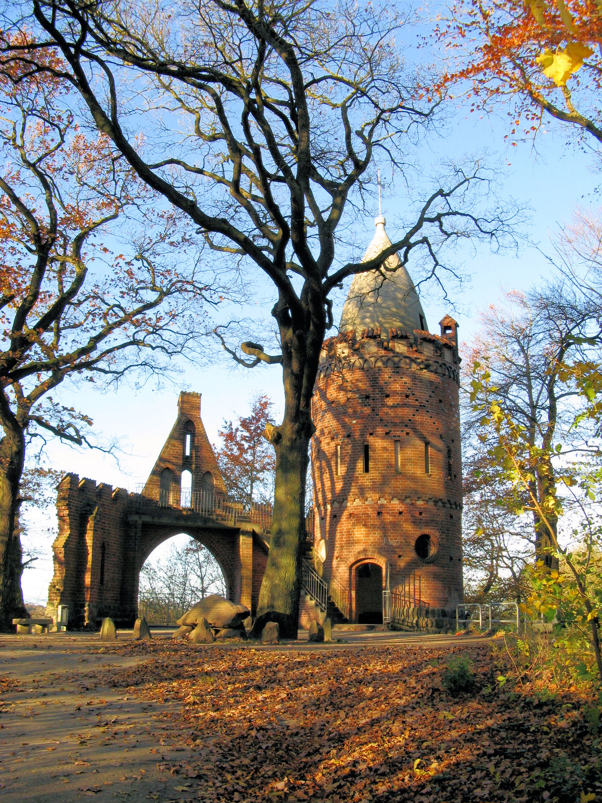 Reppin Castle at the southern shore of the Schweriner See in Schwerin, Mecklenburg-Vorpommern, Germany